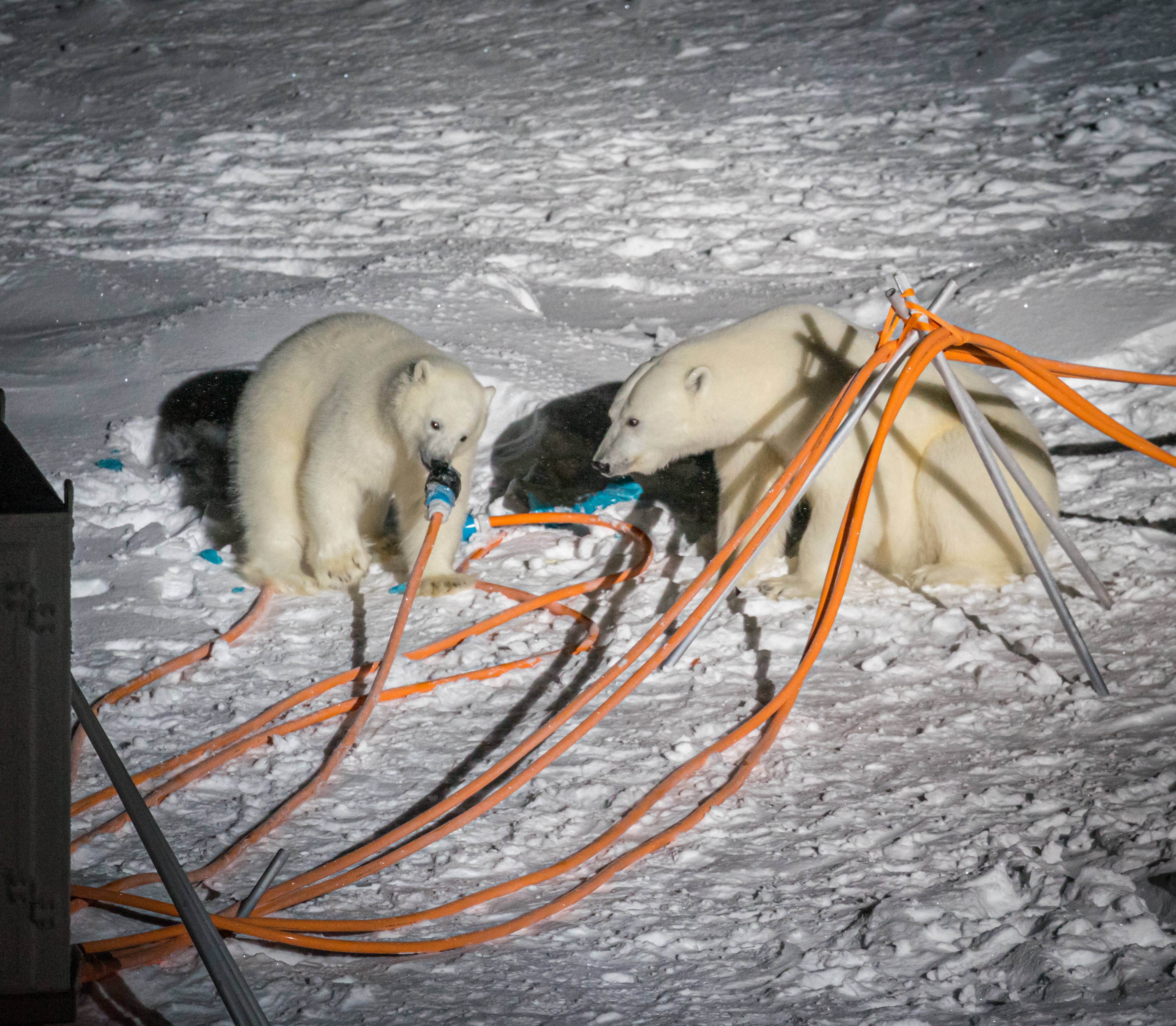 Polar bears chewing on power cables for field instruments during the Polarstern MOSAiC expedition in October 2019.